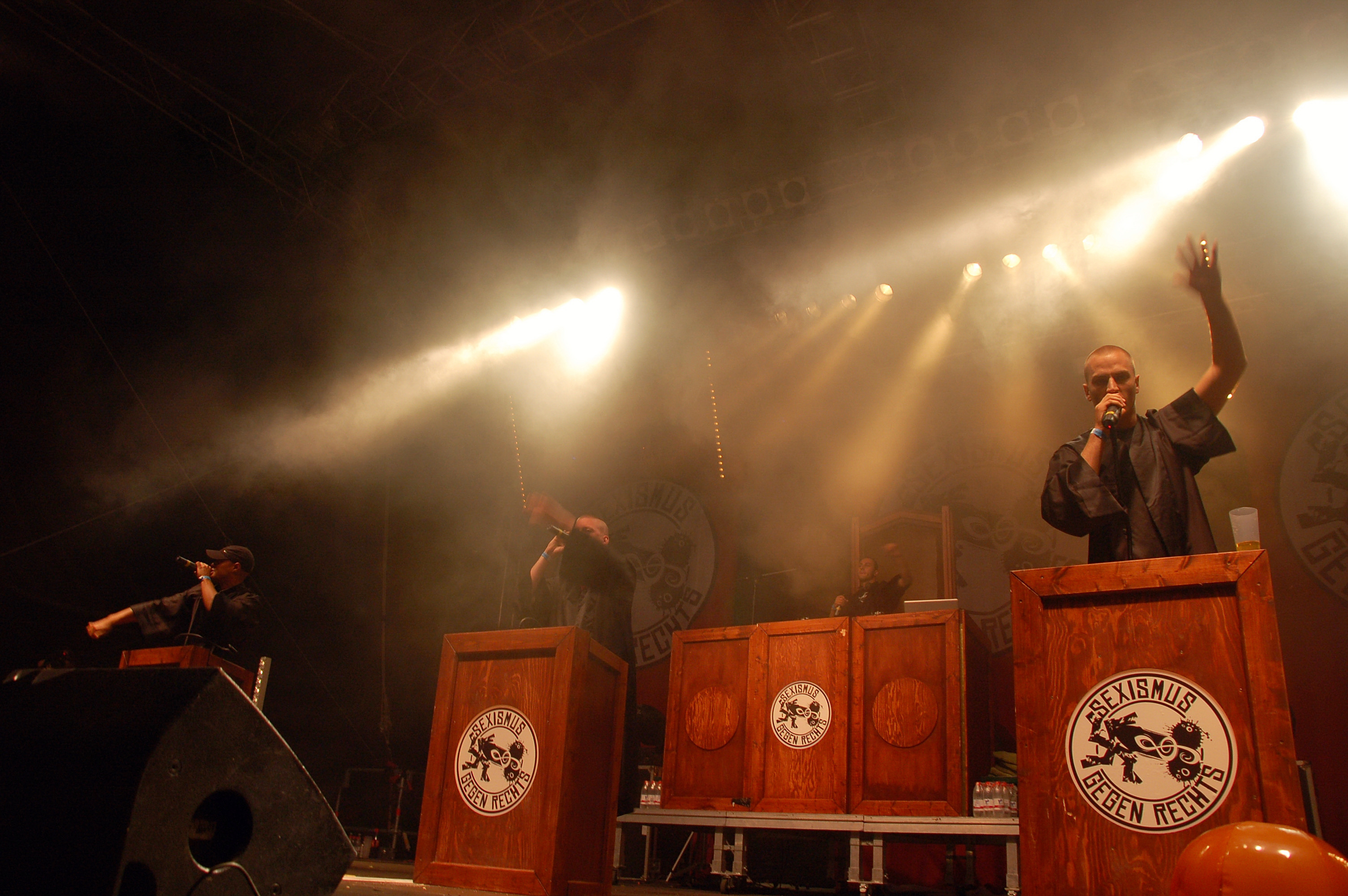 K.I.Z. at the Mini-Rock-Festival 2009 in Germany